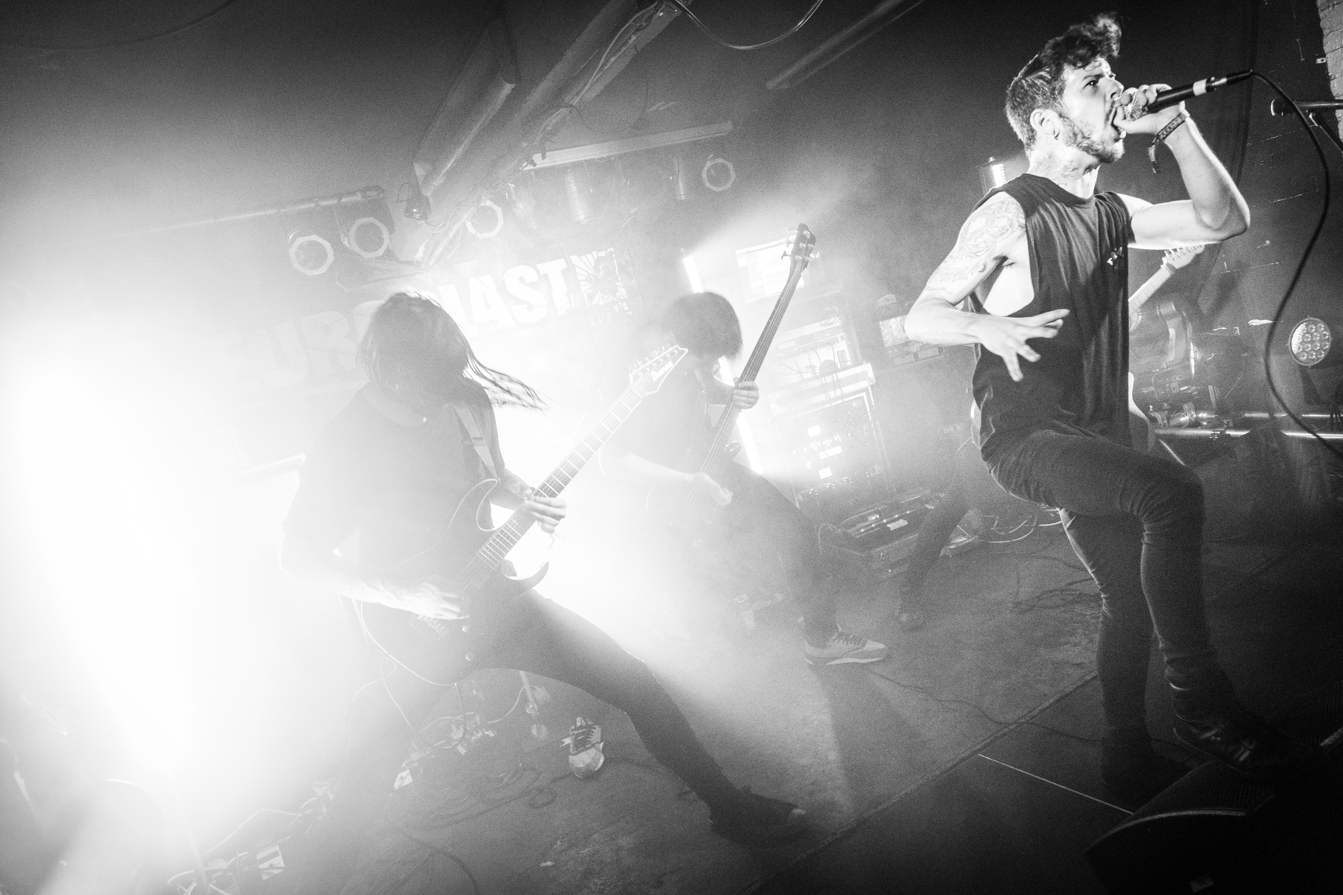 Carcer City live at the Euroblast Festival in Cologne, 2016